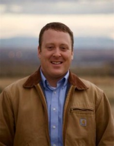 Candidate headshot